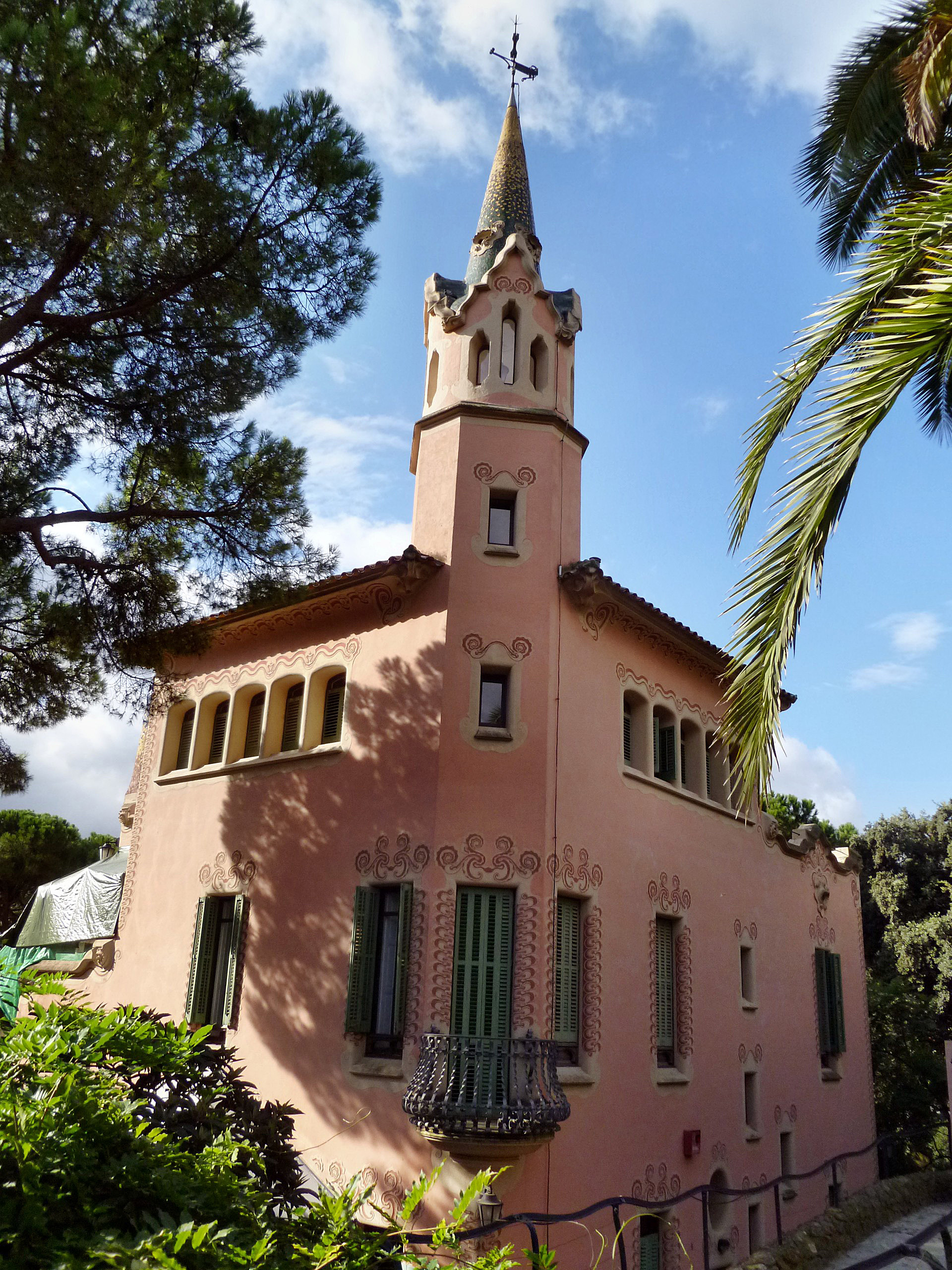 Gaudi museum, the house where Gaudi lived from 1906 until 1926; in the Parc Güell, Barcelona, Catalonia, Spain.